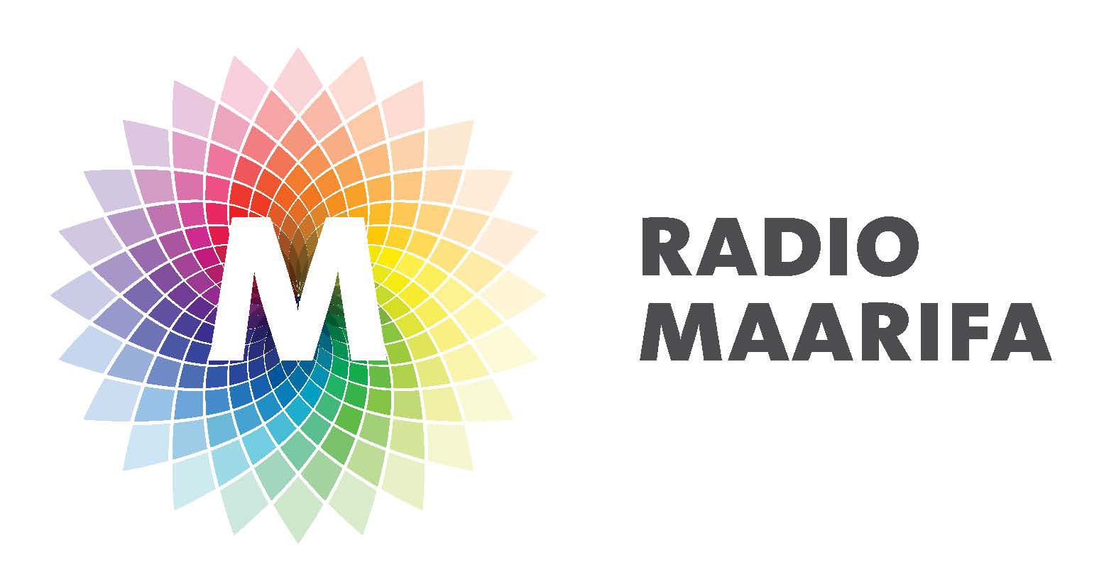 Logo of Radio Maarifa